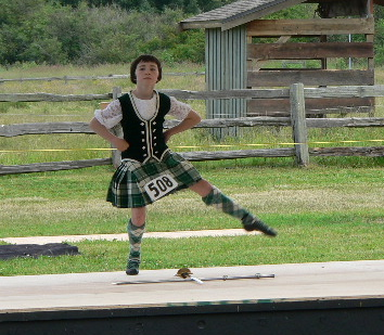 A young Highland dancer demonstrates her form in the Sword dance at the 2005 Bellingham (Washington) Highland Games.